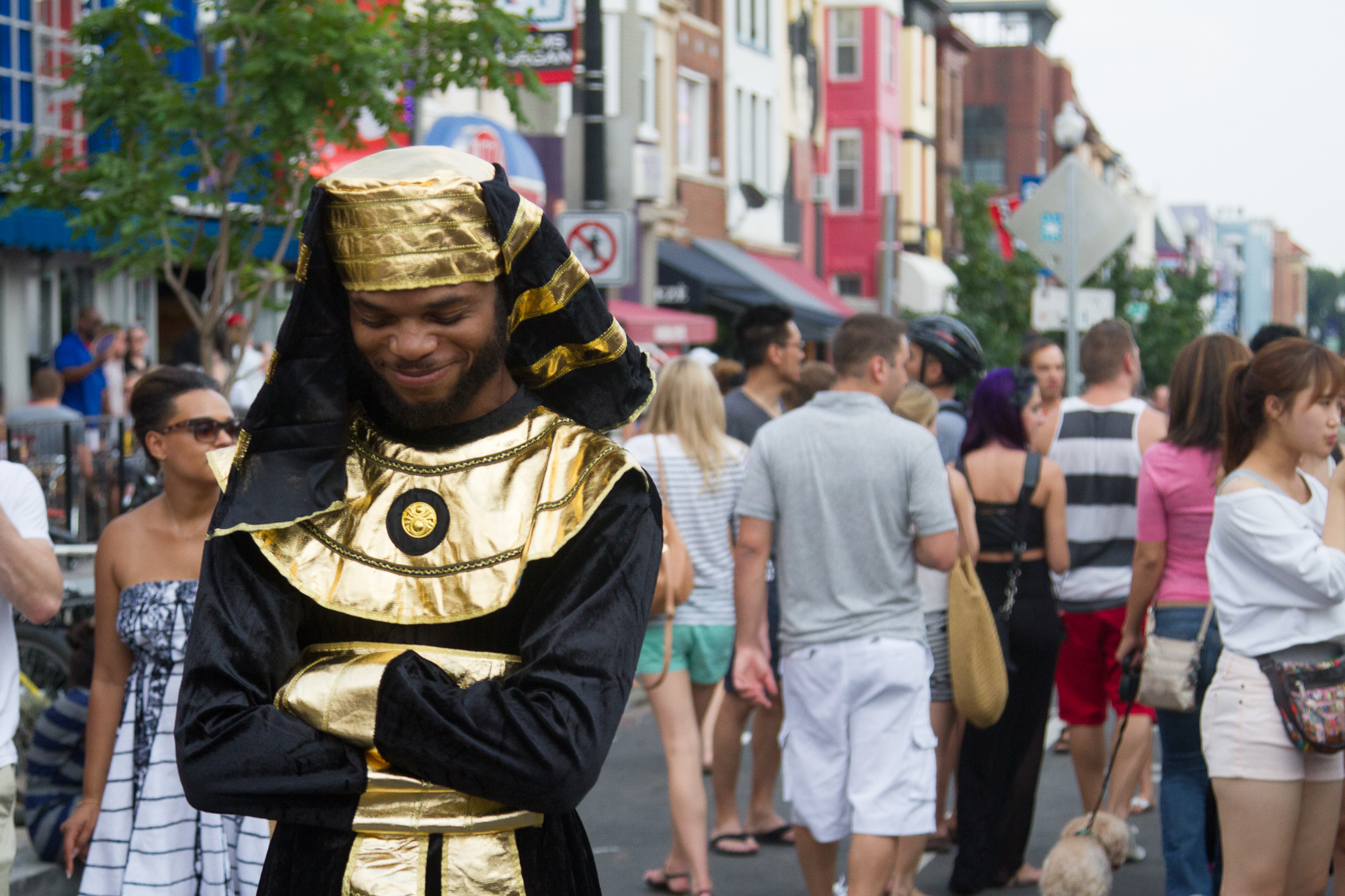 Man dressed up for Adams Morgan Day